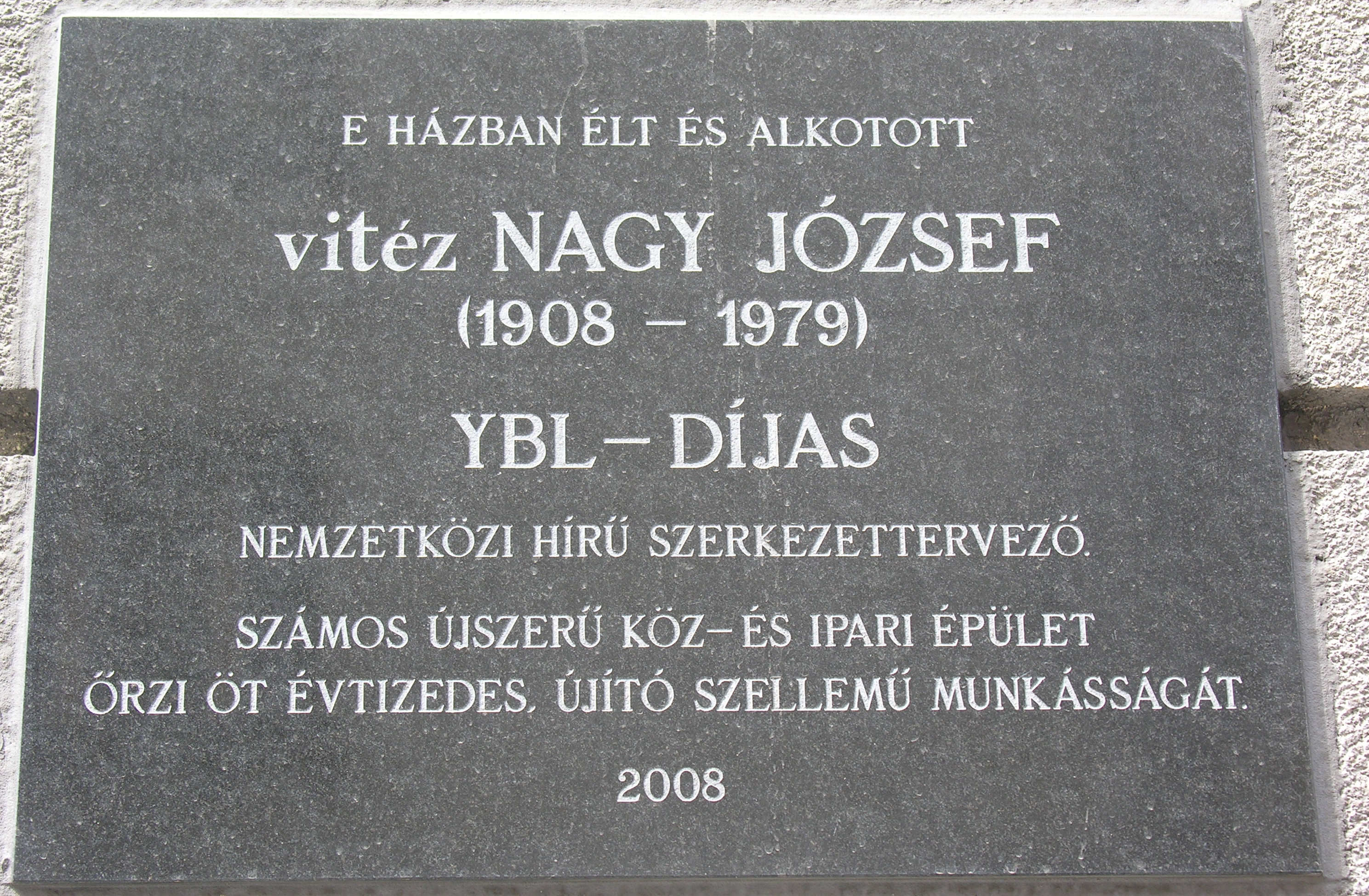 Commemorative plaque of the architect József Nagy in Budapest District XIII, Tátra Street No 20/b